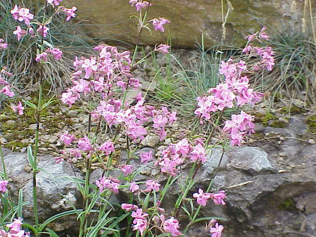 Species: Lychnis viscaria Family: Caryophyllaceae Image No. 6